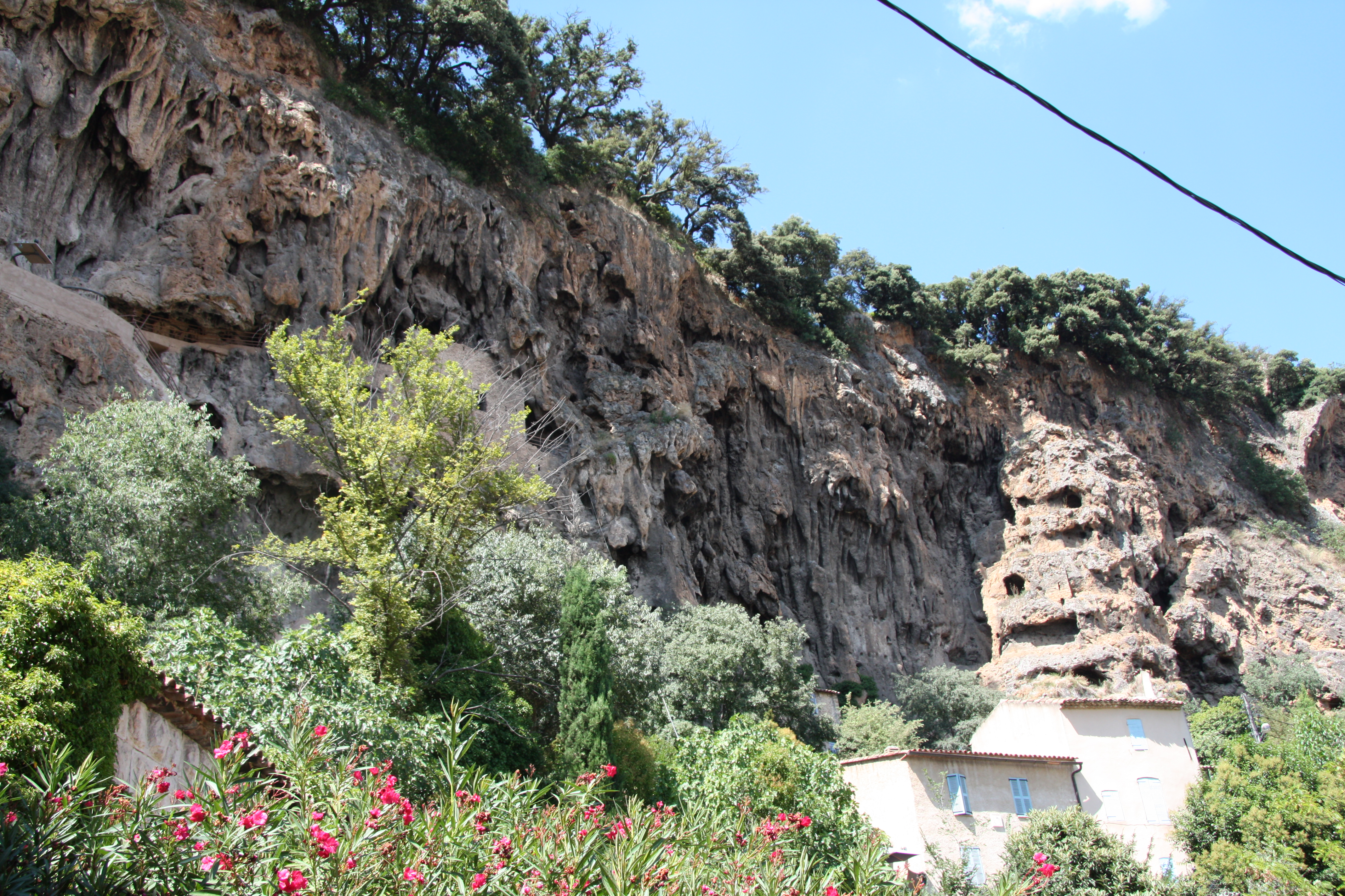 The caves of Cotignac, France.